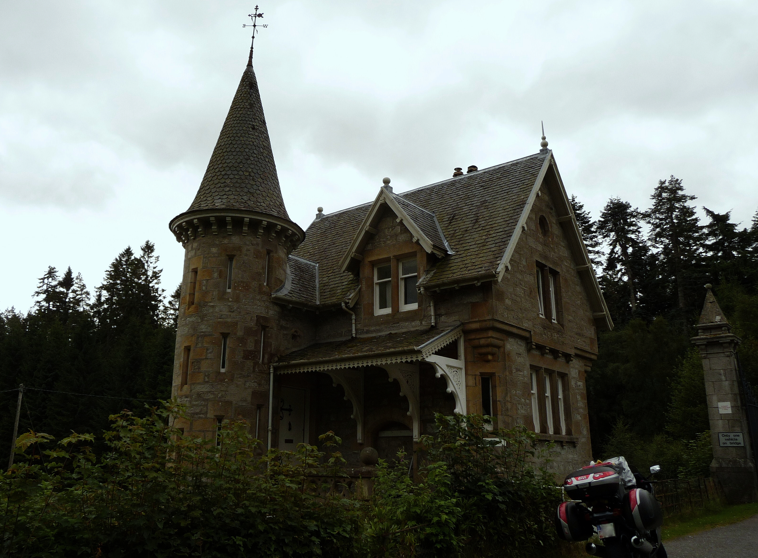 The Ardverikie Gate Lodge